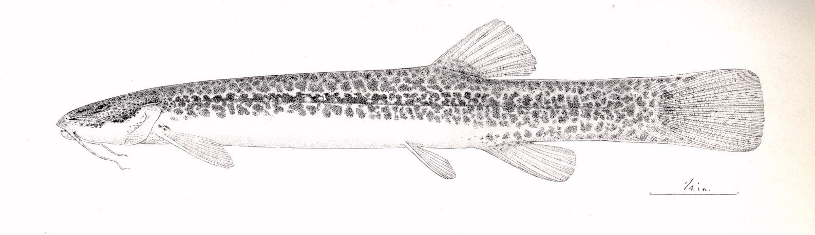 Pygidium davisi Haseman. Type Subject: Catfishes Tag: Fish